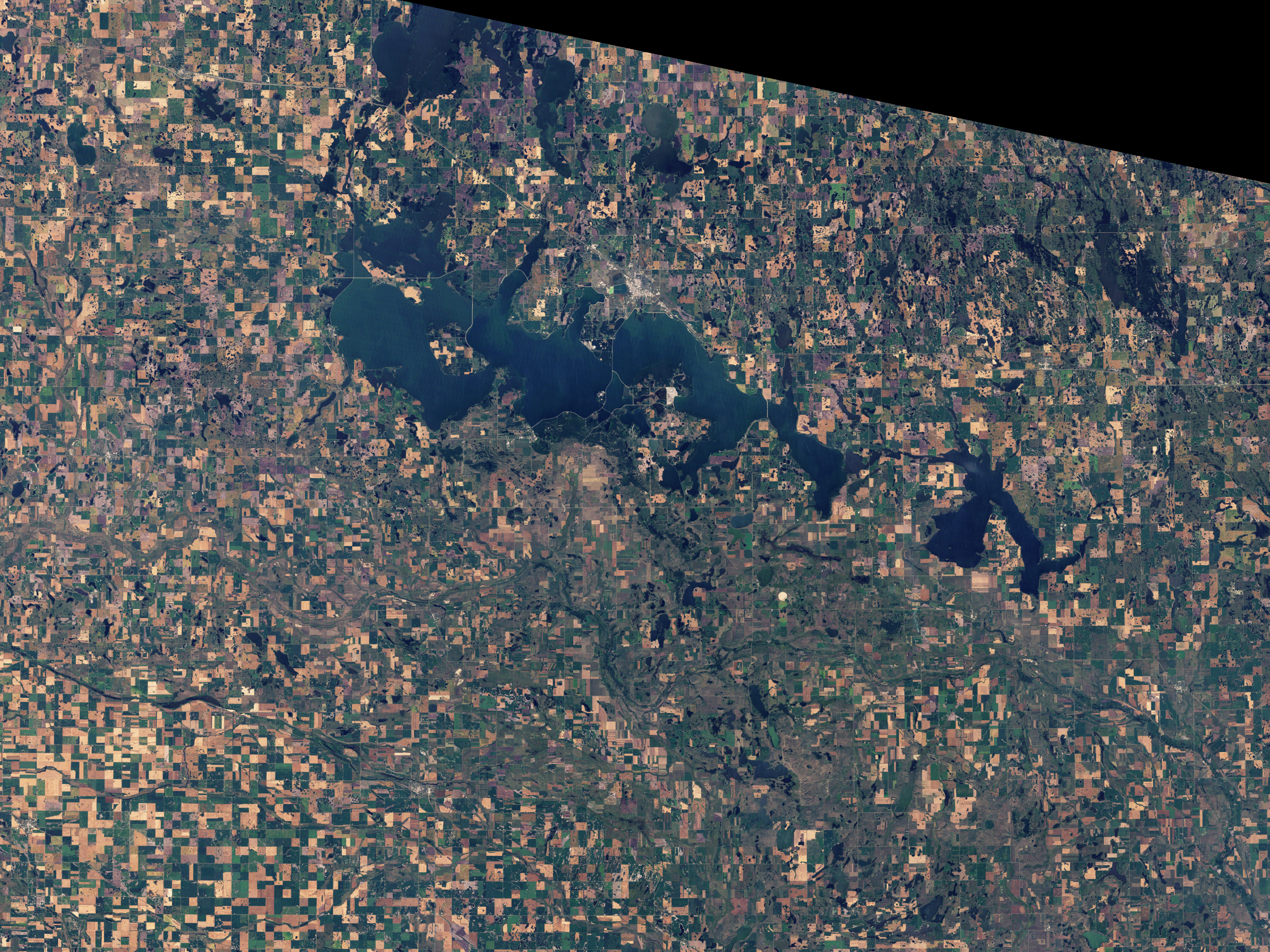 Satellite image of Devils Lake located in ND, 3/2009.